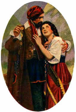 Jose Collins as Teresa in The Maid of the Mountains 1917